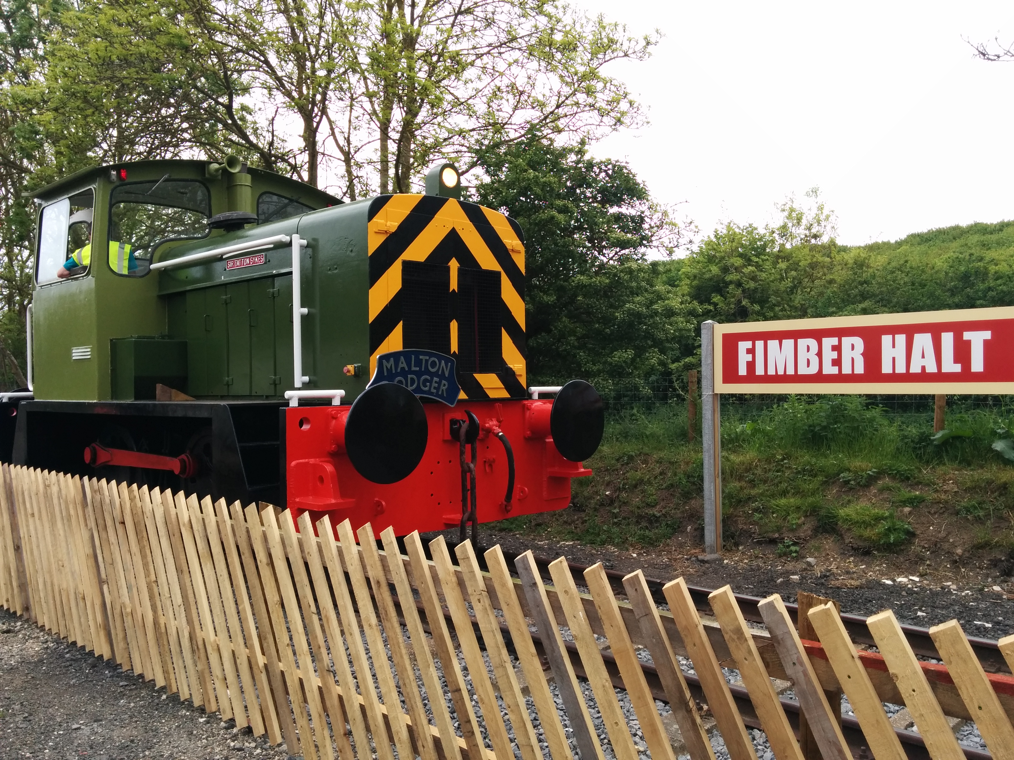 GEC Locomotive 5576 pictured at Fimber Halt on the Yorkshire Wolds Railway on 25 May 2015.